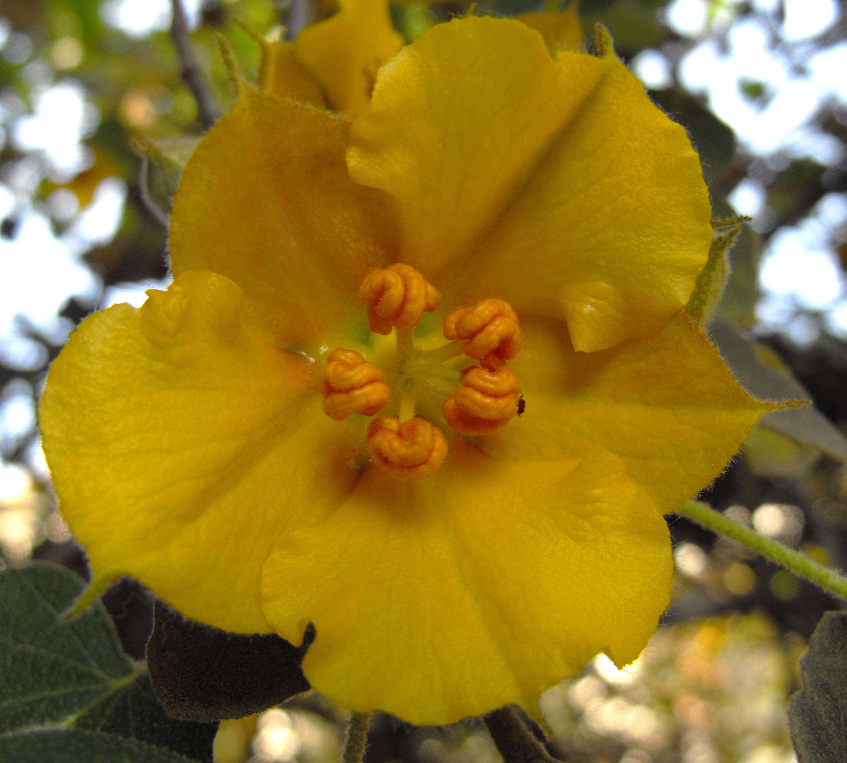 Fremontodendron 'Ken Taylor' cultivar - at the Rancho Santa Ana Botanic Garden in Claremont, Southern California, U.S. Identified by garden i.d. sign.